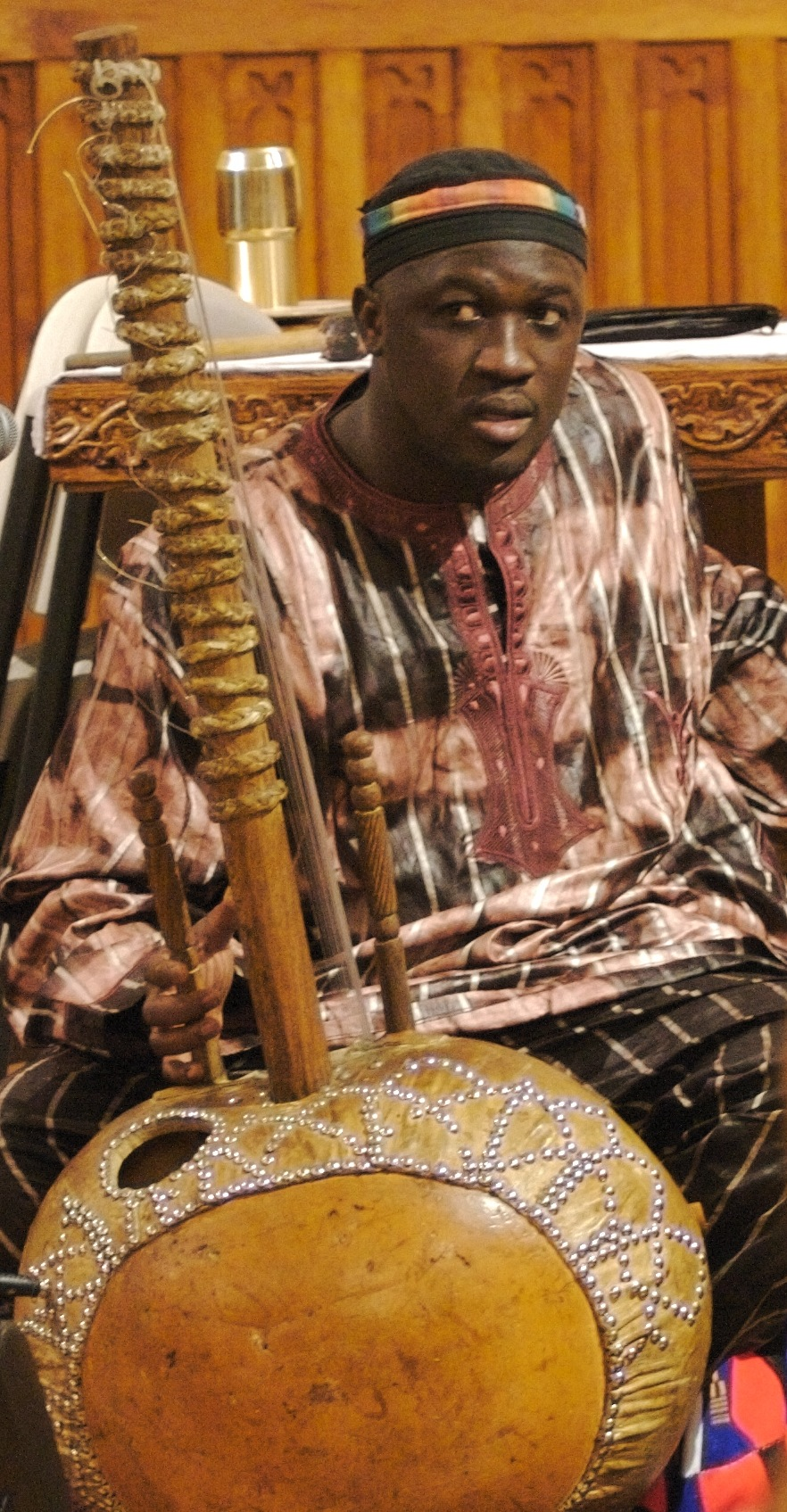 Mamadou Diabaté at the Norwood Village Green Summer Concert Series. (Photo is cropped from the Flickr original.)